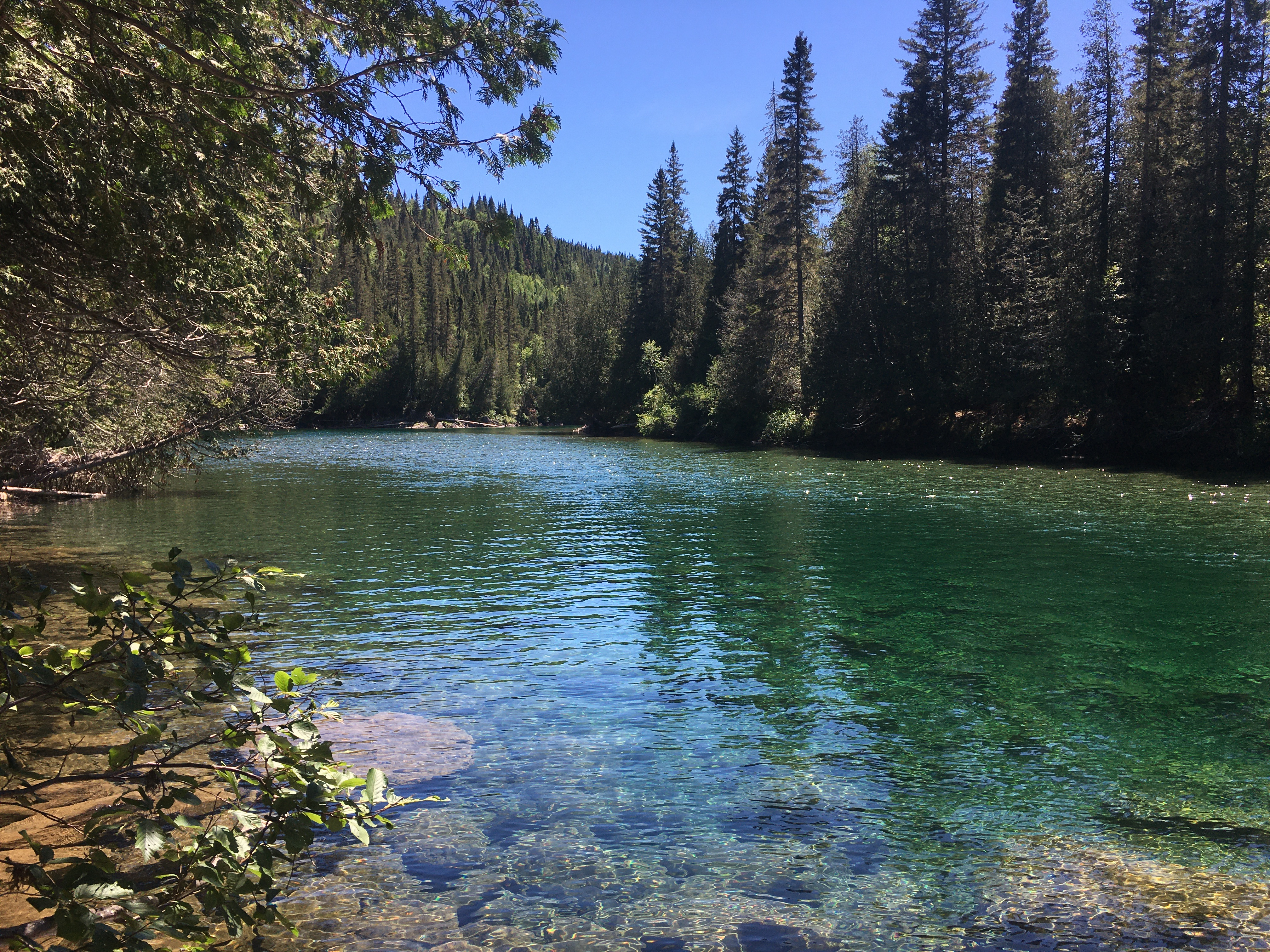 Rivière Bonaventure, Zec de la Rivière-Bonaventure, Gaspésie, Québec, Canada